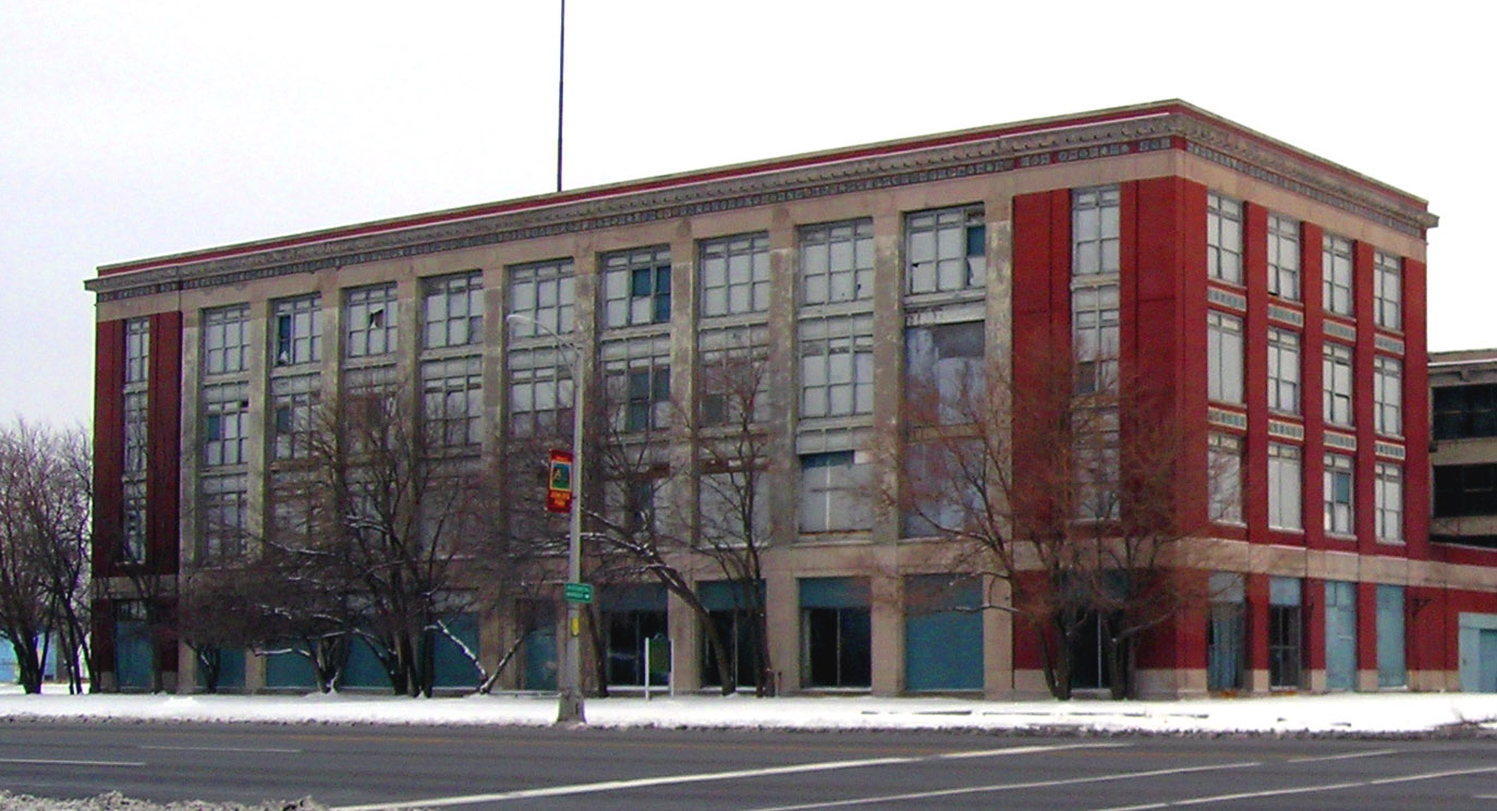 The Highland Park Ford Motor Company plant — in Highland Park, Michigan. Listed on the US National Register of Historic Places (NRHP), and is a designated National Historic Landmark.